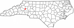 Category:North Carolina Dot Maps